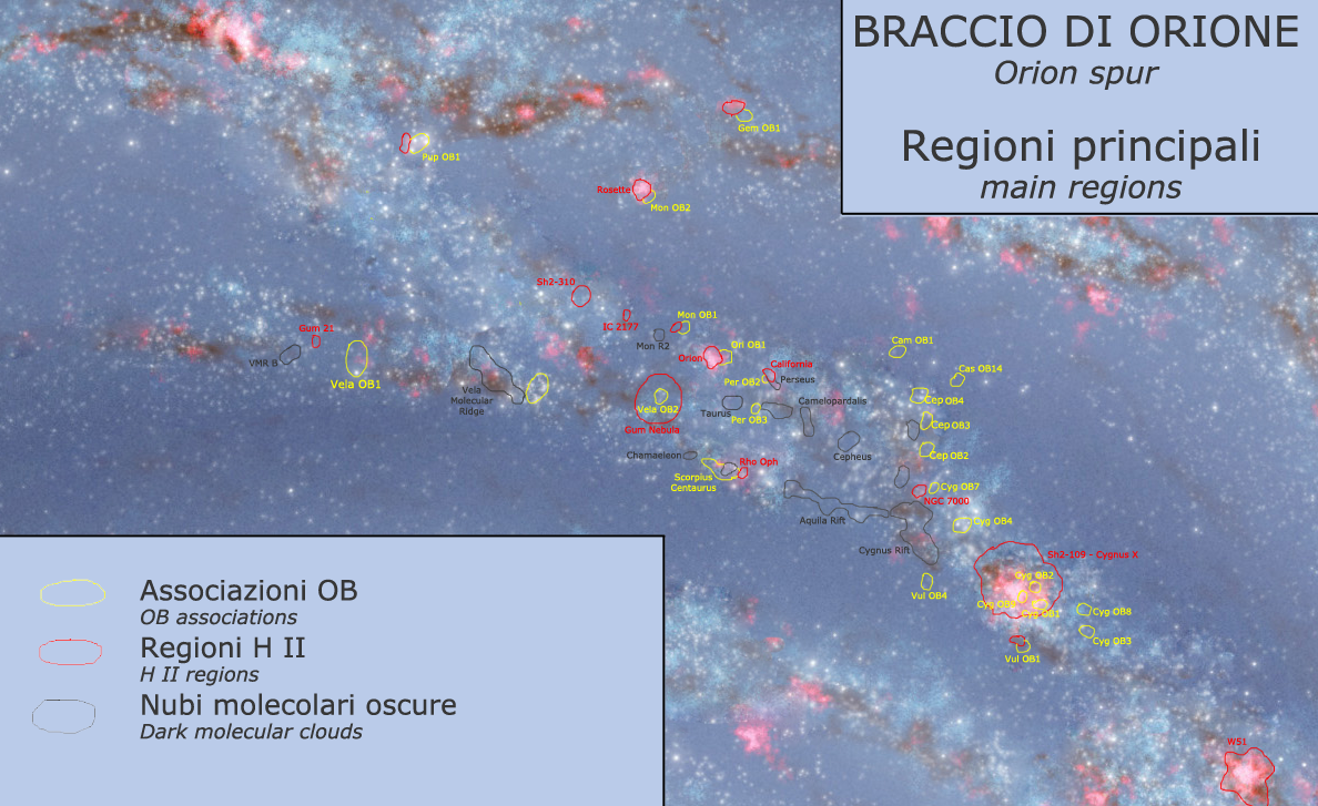 Map of the Orion Spur